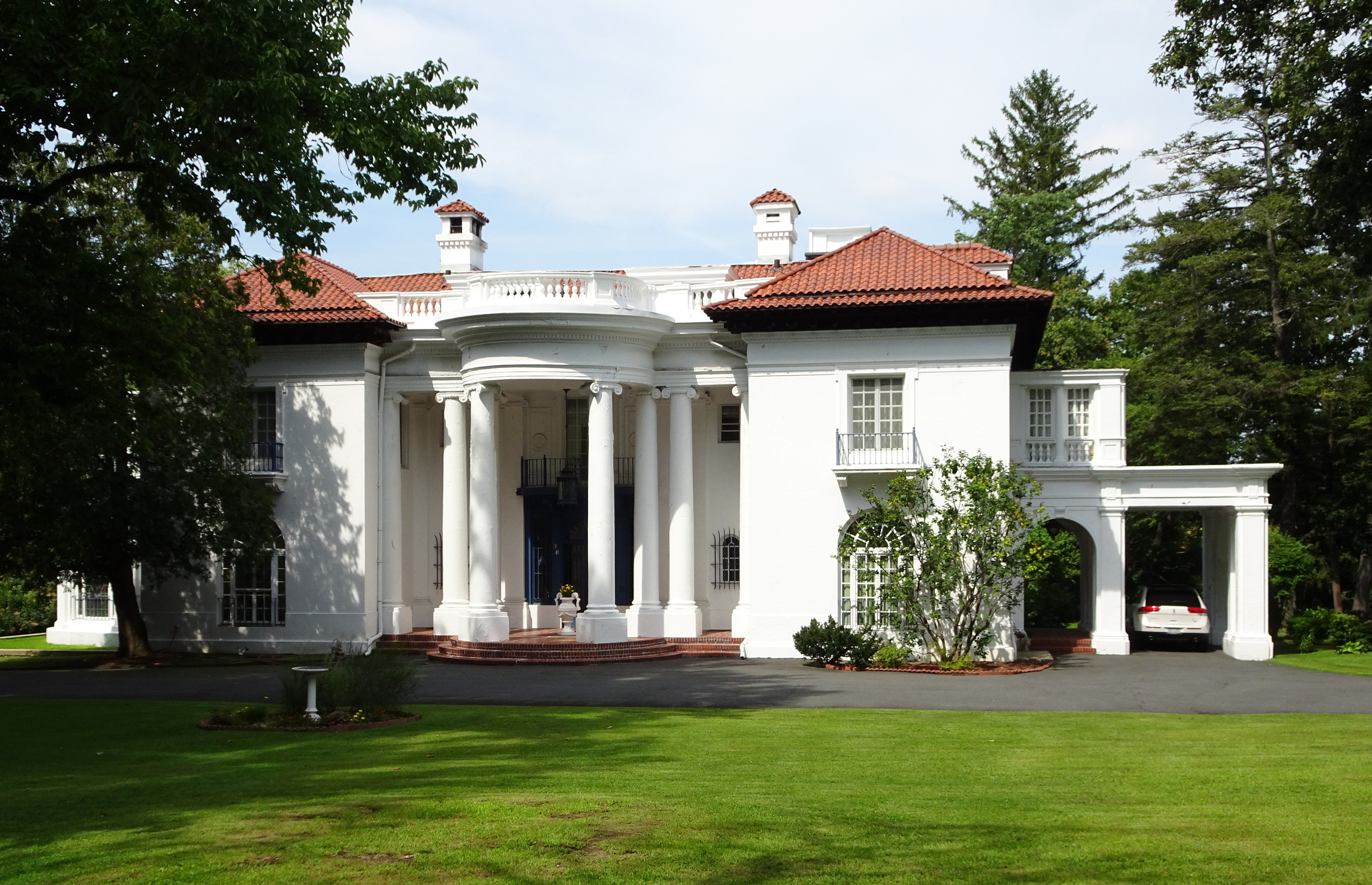 Looking west at 67 Broadway on a mostly sunny midday.